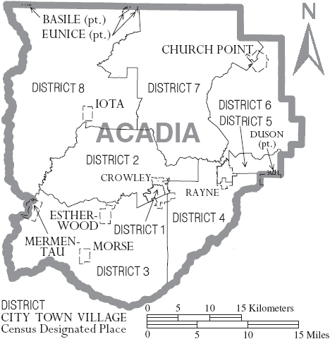 Map of Acadia Parish, Louisiana, United States with municipal and district boundaries